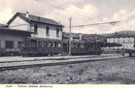 Varzi railway station - 2